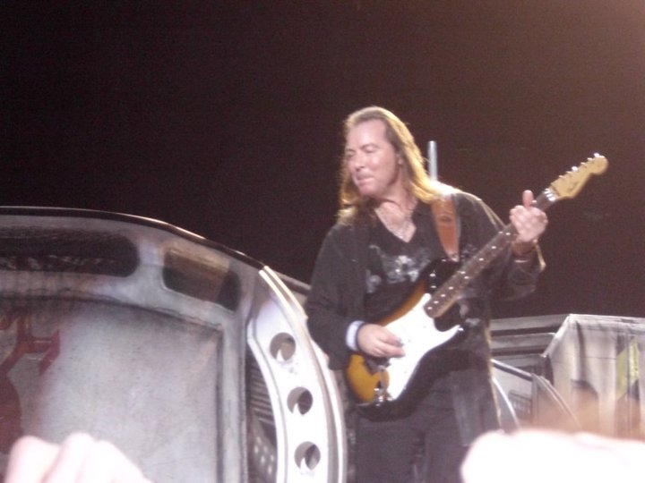 Iron Maiden on stage in Dublin, 2010